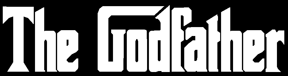 Made by User:Khoikhoi using The Godfather Font. Originally The Godfather.jpg.